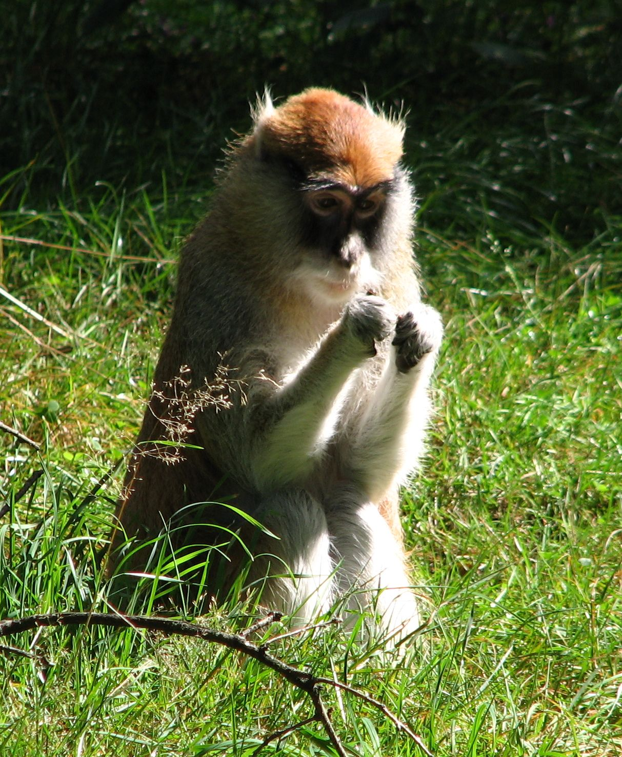 Patas monkey (Erythrocebus patas) in ZOO Olomouc, Czech Republic